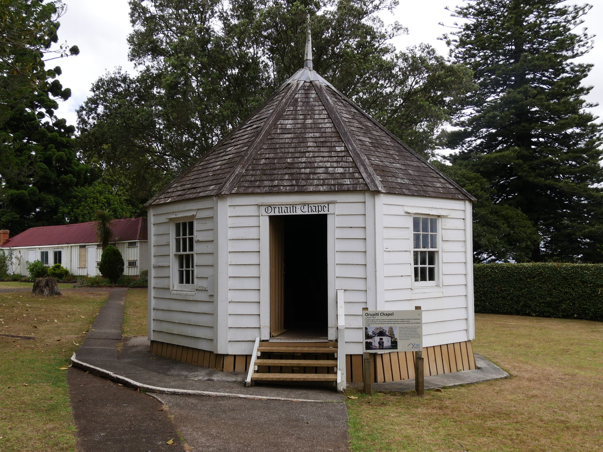 Oruaiti Chapel, Whangarei, Northland, New Zealand, build 1861, is named to be the smallest church in New Zealand